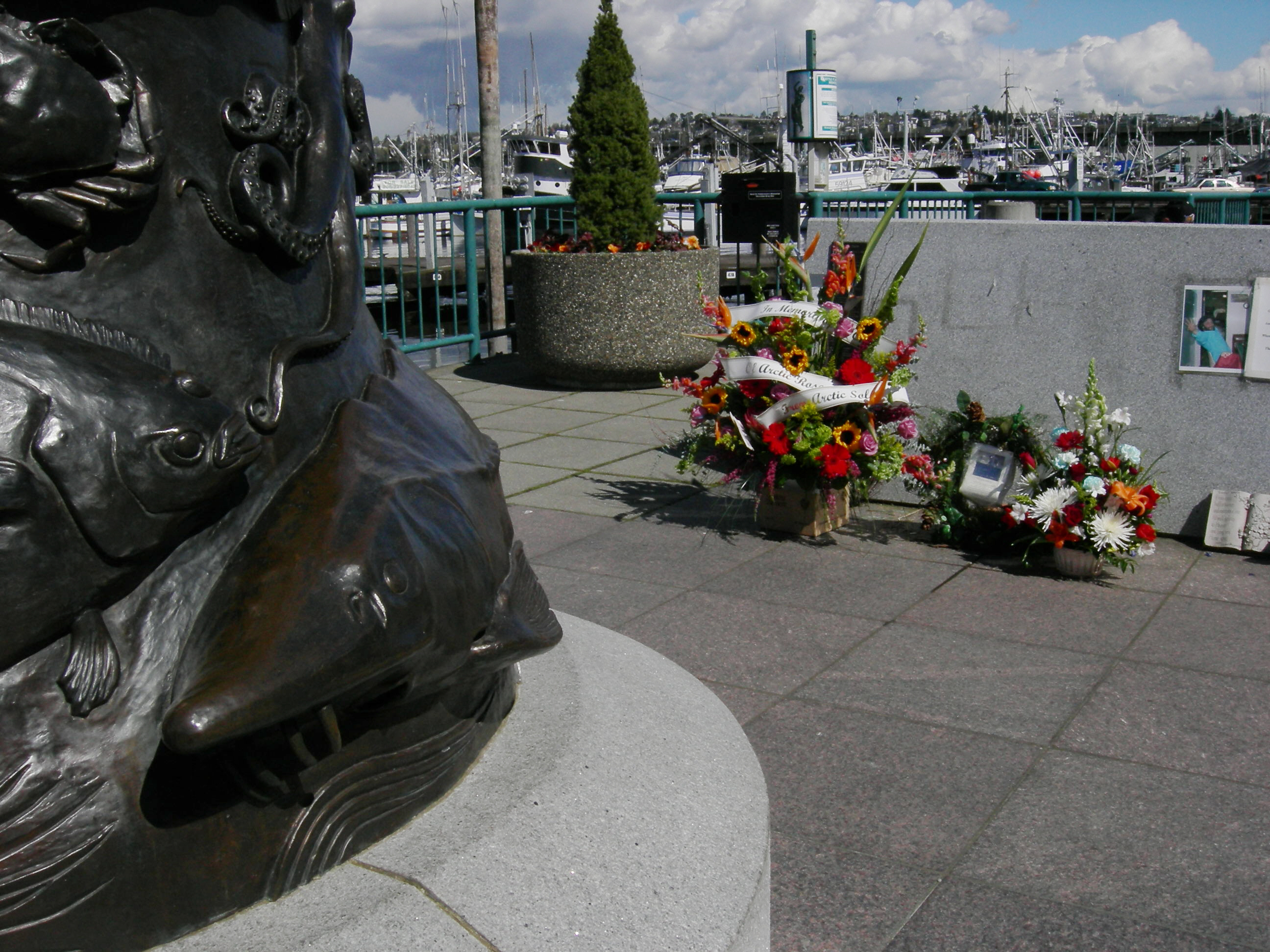 Large wreath in memory of the dead of the Arctic Rose, Fishermen's Memorial, Fishermen's Terminal, Seattle, Washington.